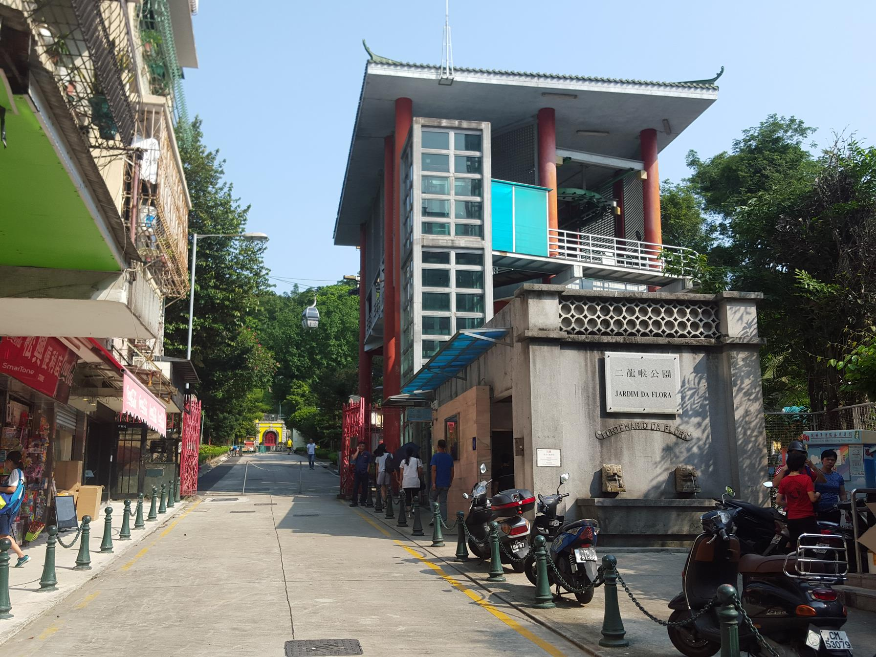 Flora Garden